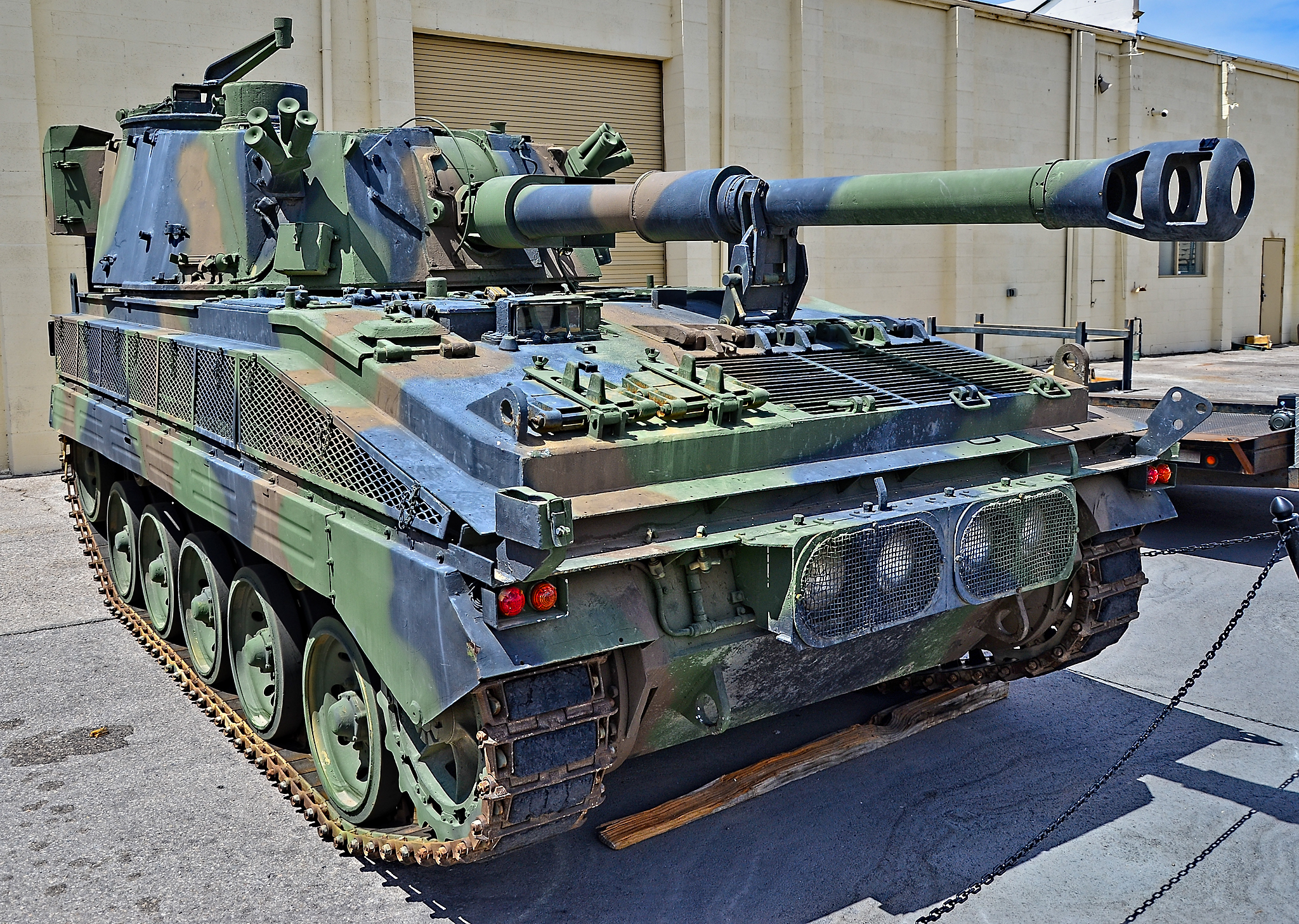 TDelCoro May 1, 2015